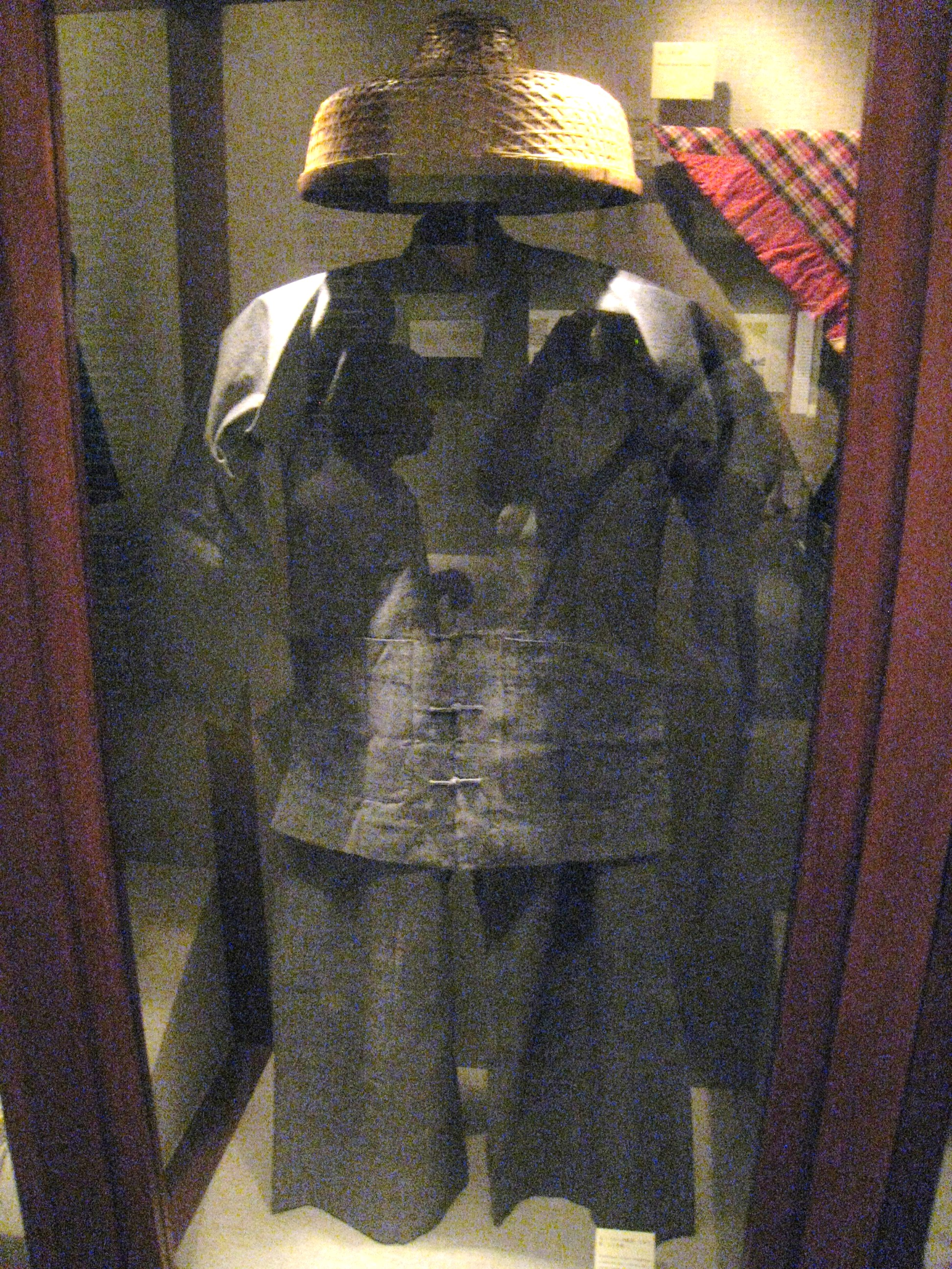 Clothes of Danjia/Tanka people in a Hong Kong Museum